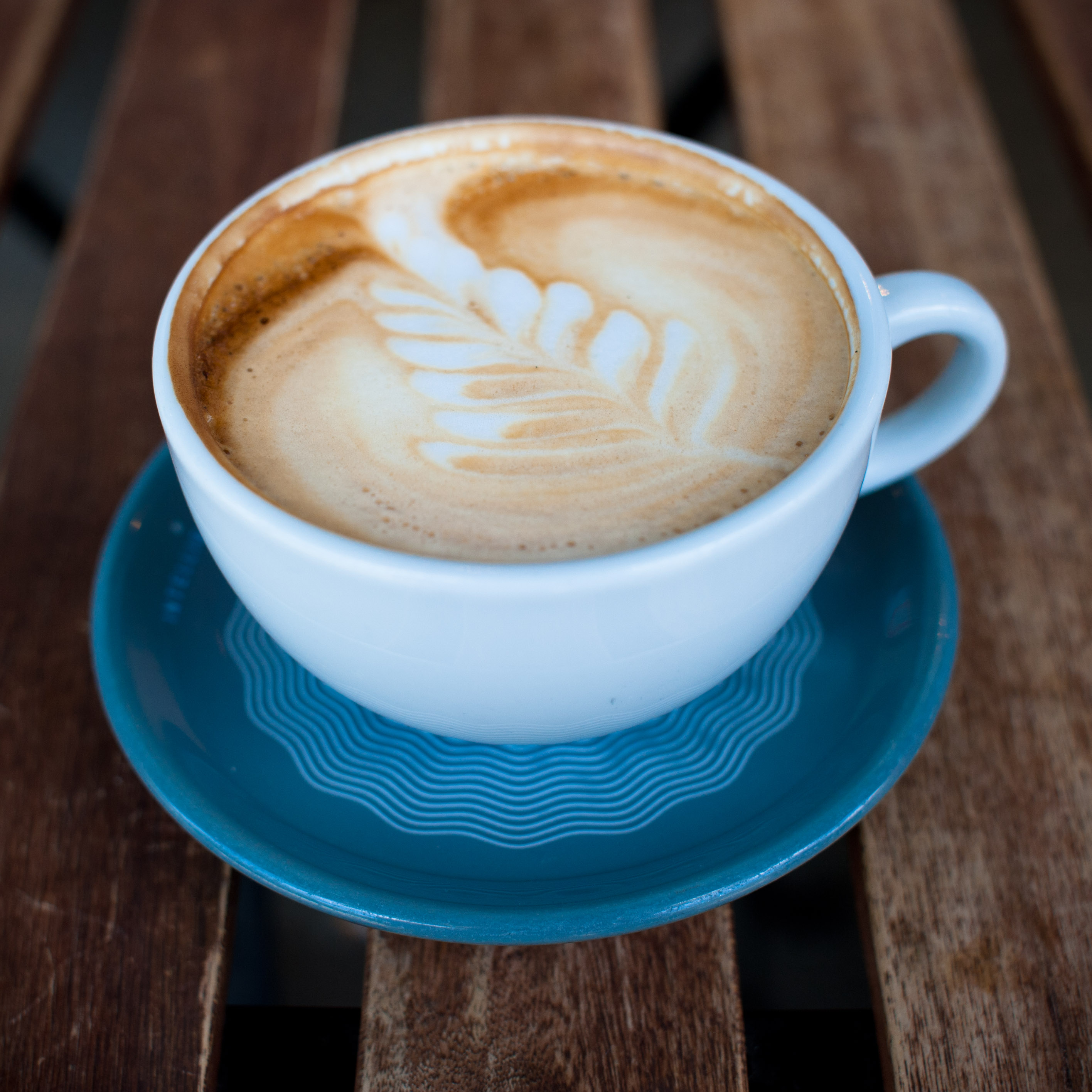 Wicked Cafe, Latte